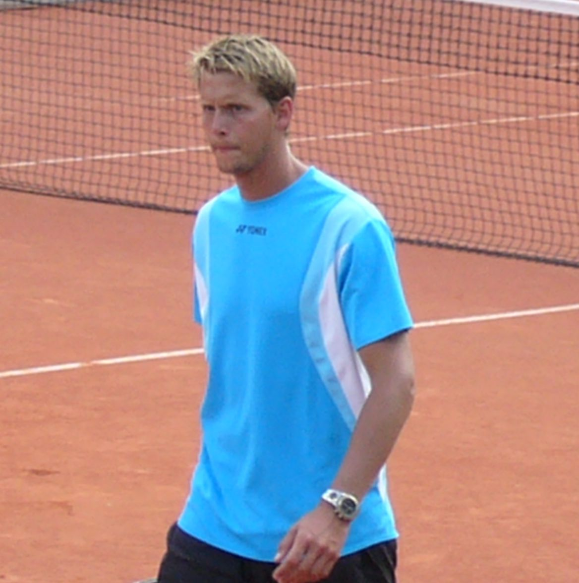 Joachim "Pim-Pim" Johansson at the 2008 Swedish Open in Båstad 10 July 2008.